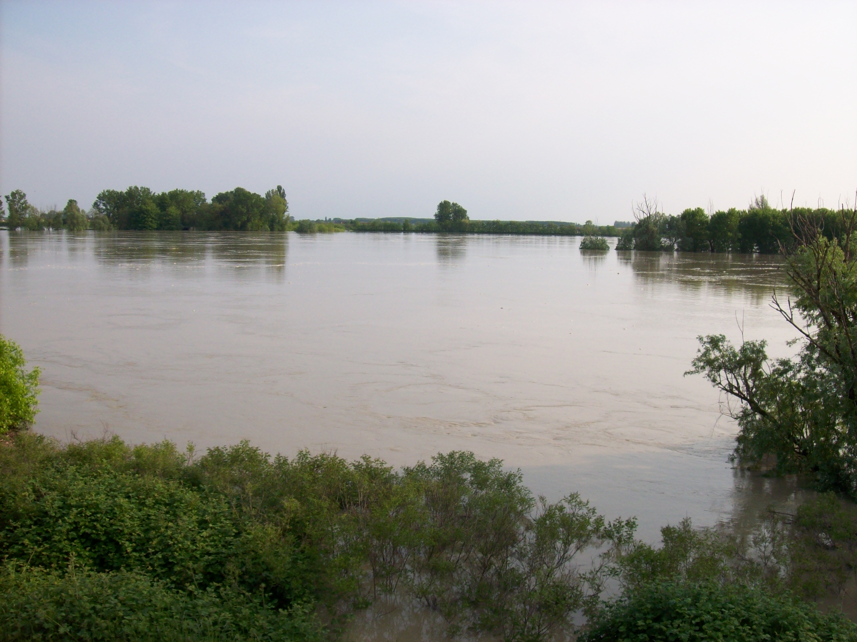 The Po River near to San Benedetto Po (Province of Mantua, Italy)